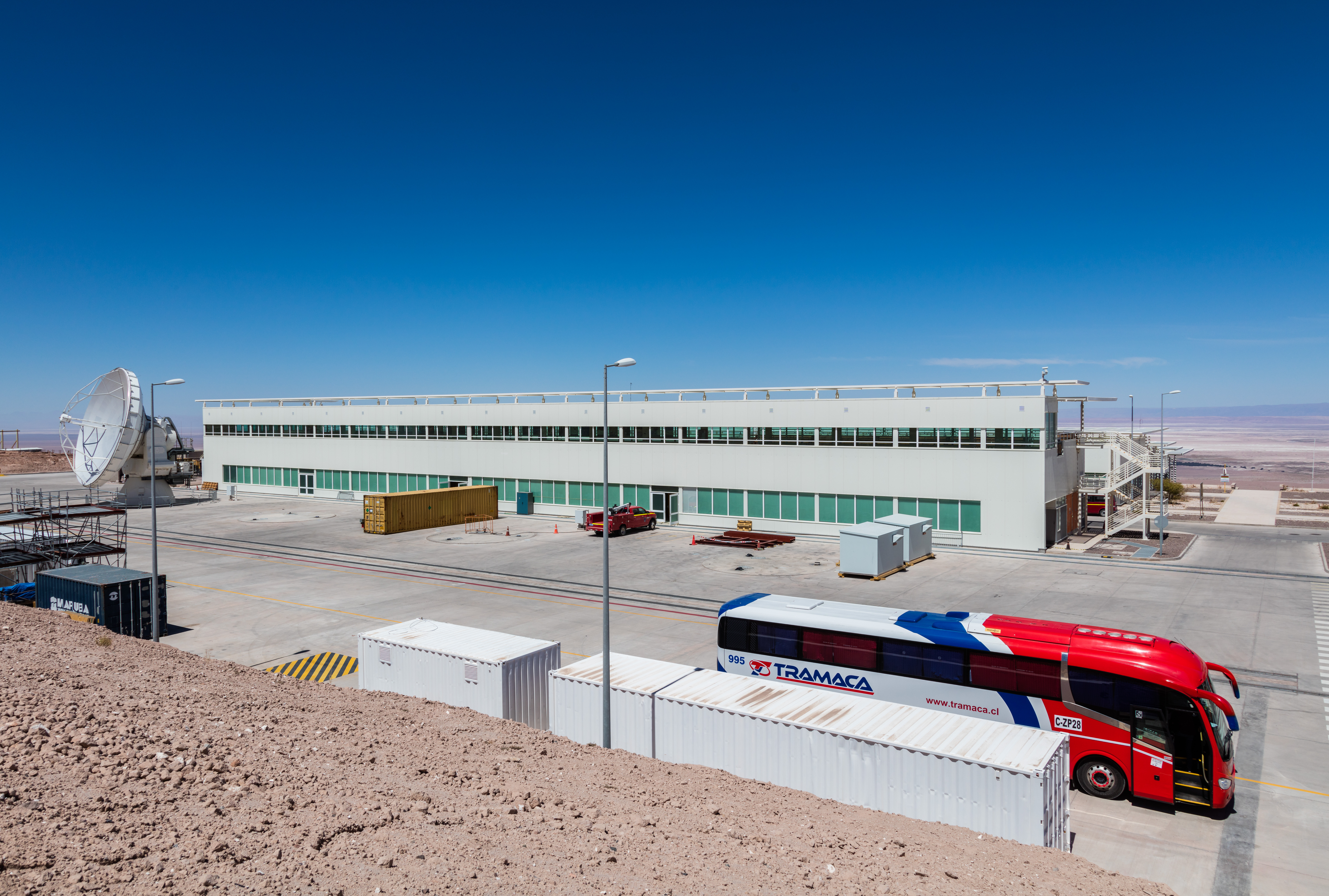 ALMA (Atacama Large Millimeter Array) space observatory, Atacama desert, Chile